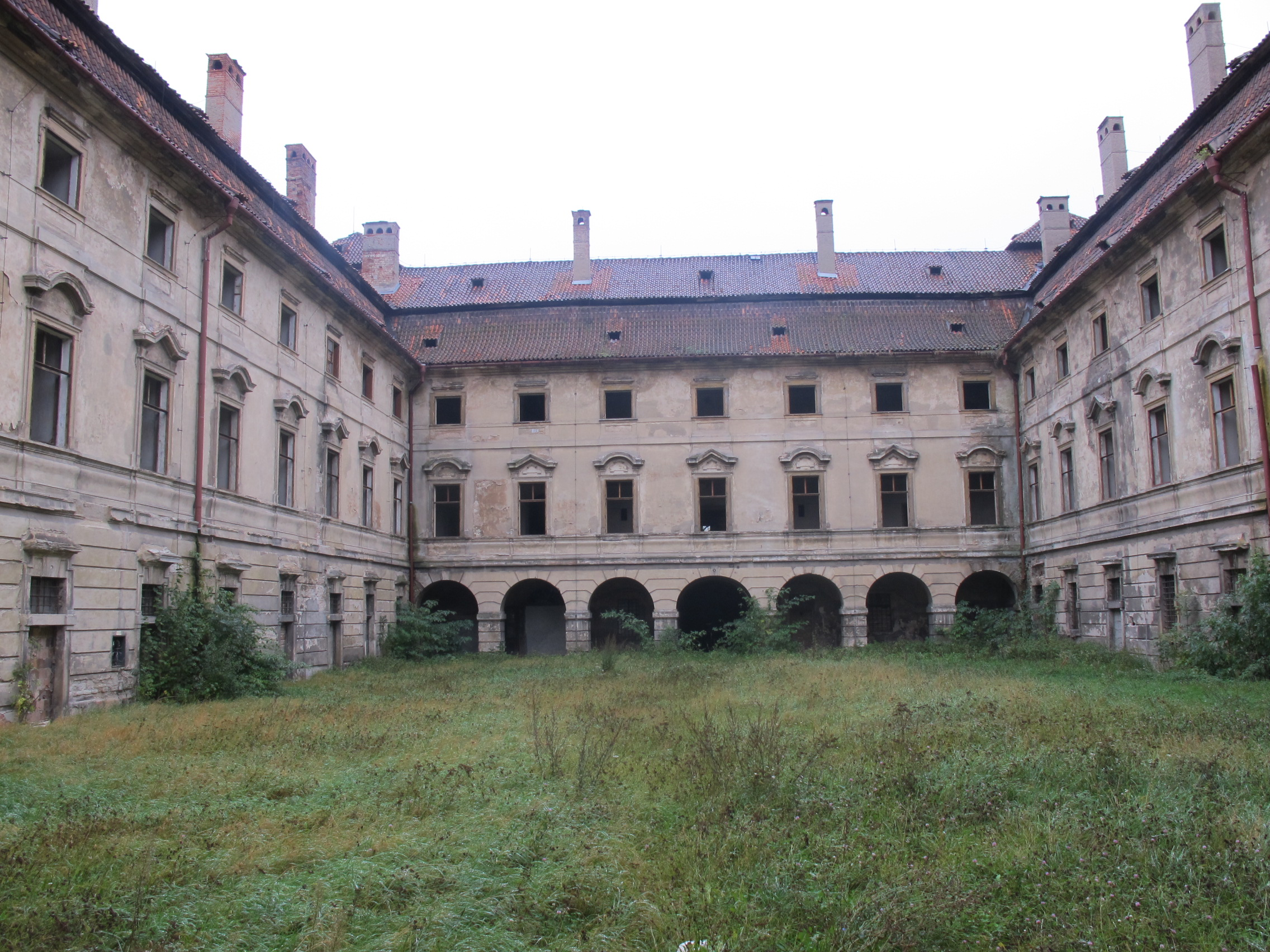 Courtyard of the Postoloprty castle